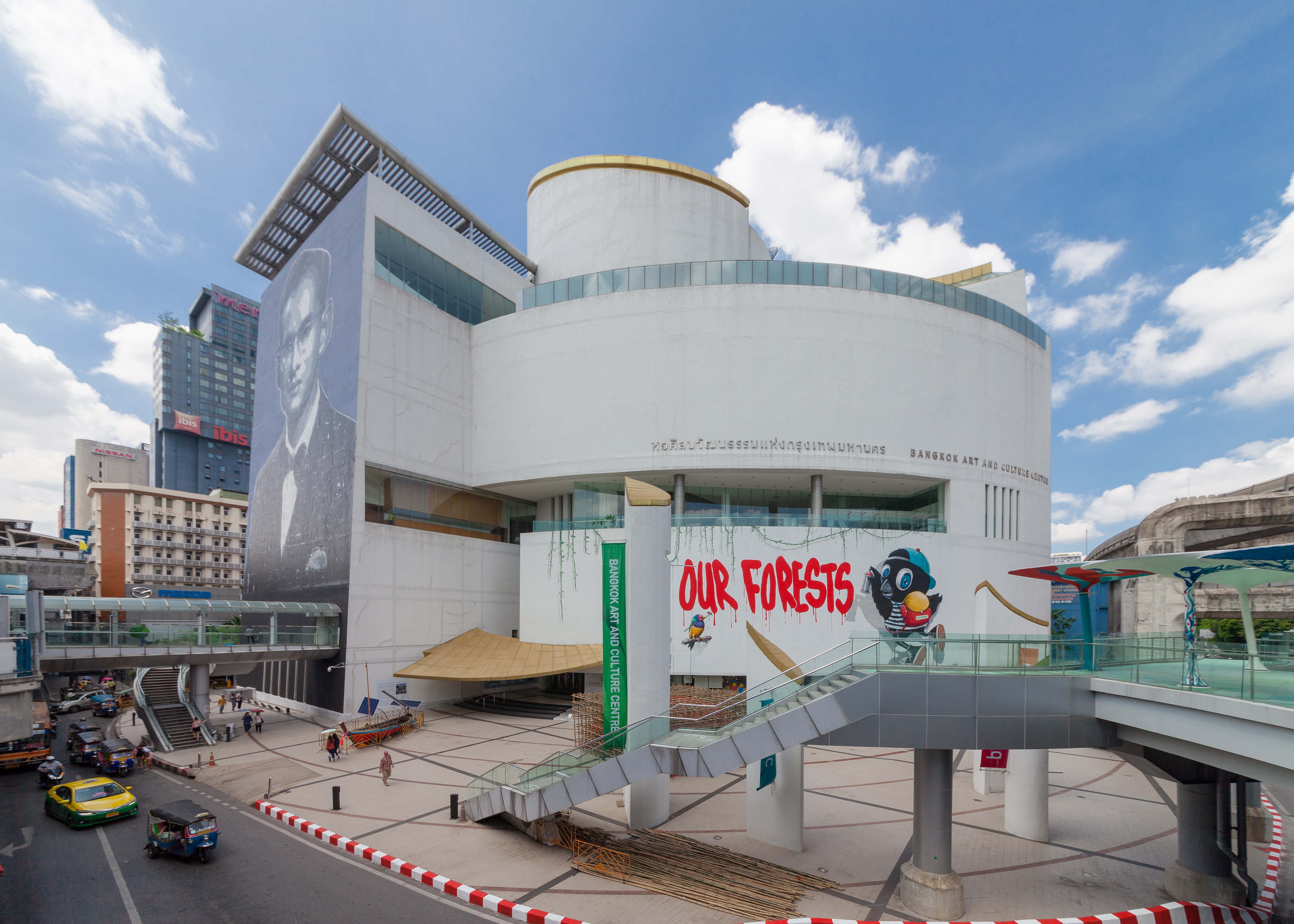 Bangkok Art and Culture Centre designed by Robert G. Boughey & Associates (RGB Architects) located at Pathum Wan district Bangkok.